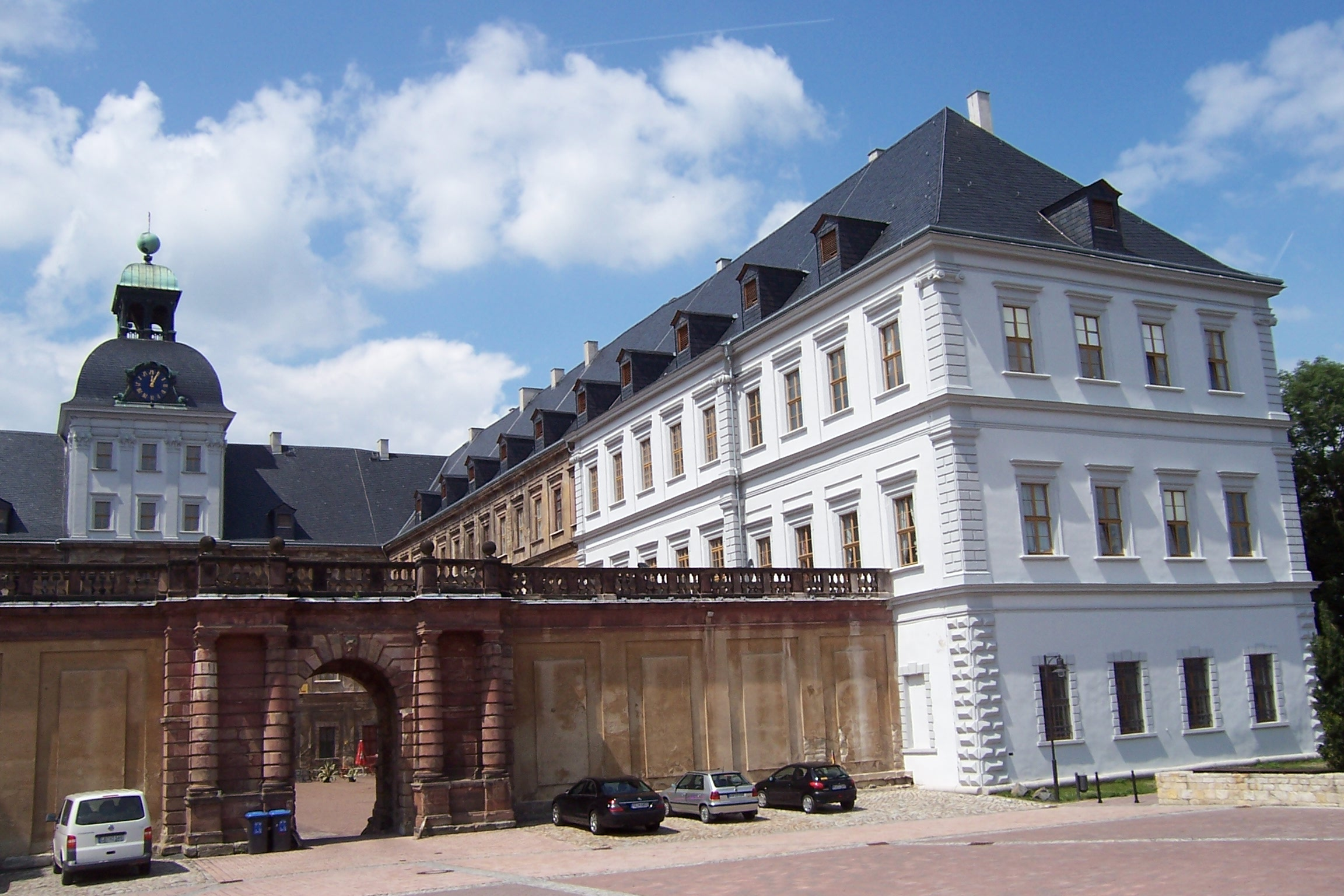 East side of Schloss Neu-Augustusburg in Weissenfels, Germany